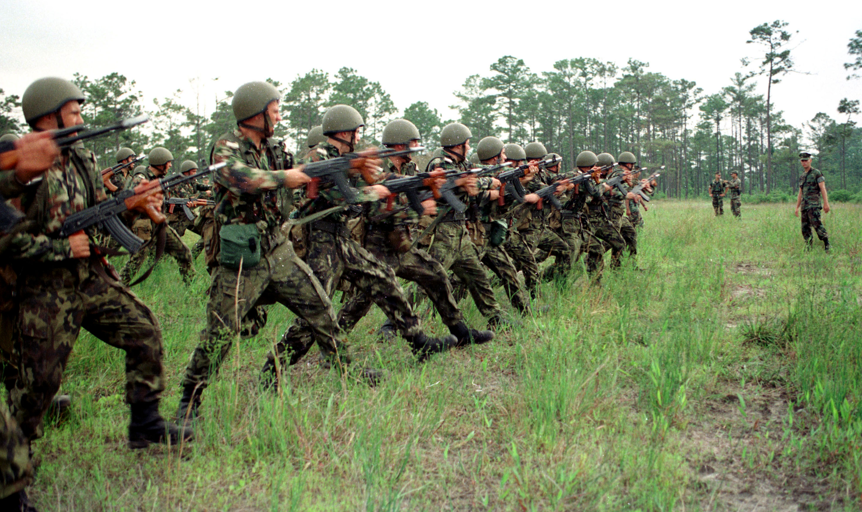 Romanian soldiers form a line across the field as they practice riot control procedures during Exercise Cooperative Osprey '98 on June 6, 1998, at Marine Corps Base, Camp Lejeune, N.C. Cooperative Osprey '98 is a Partnership for Peace situational training exercise designed to improve the interoperability of NATO and partner nations through the practice of combined peacekeeping and humanitarian relief operations. Partner nations include Albania, Bulgaria, Estonia, Georgia, Kazakstan, Kyrgyzstan, Latvia, Lithuania, Moldova, Poland, Romania, Ukraine, and Uzbekistan. Participating NATO nations include Canada, The Netherlands, and the United States.